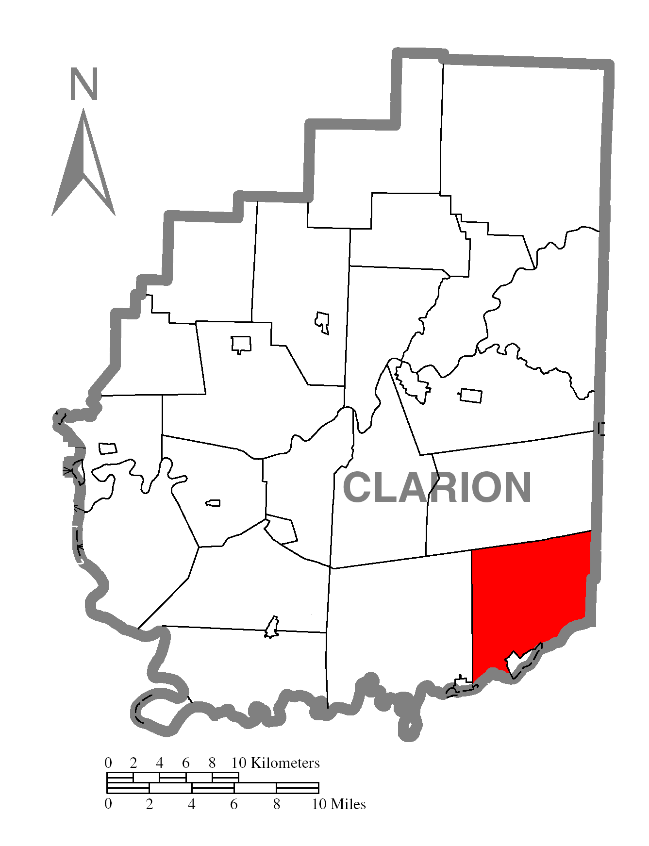 A map of Clarion County showing Redbank Township, Pennsylvania (alternate) highlighted on the map.